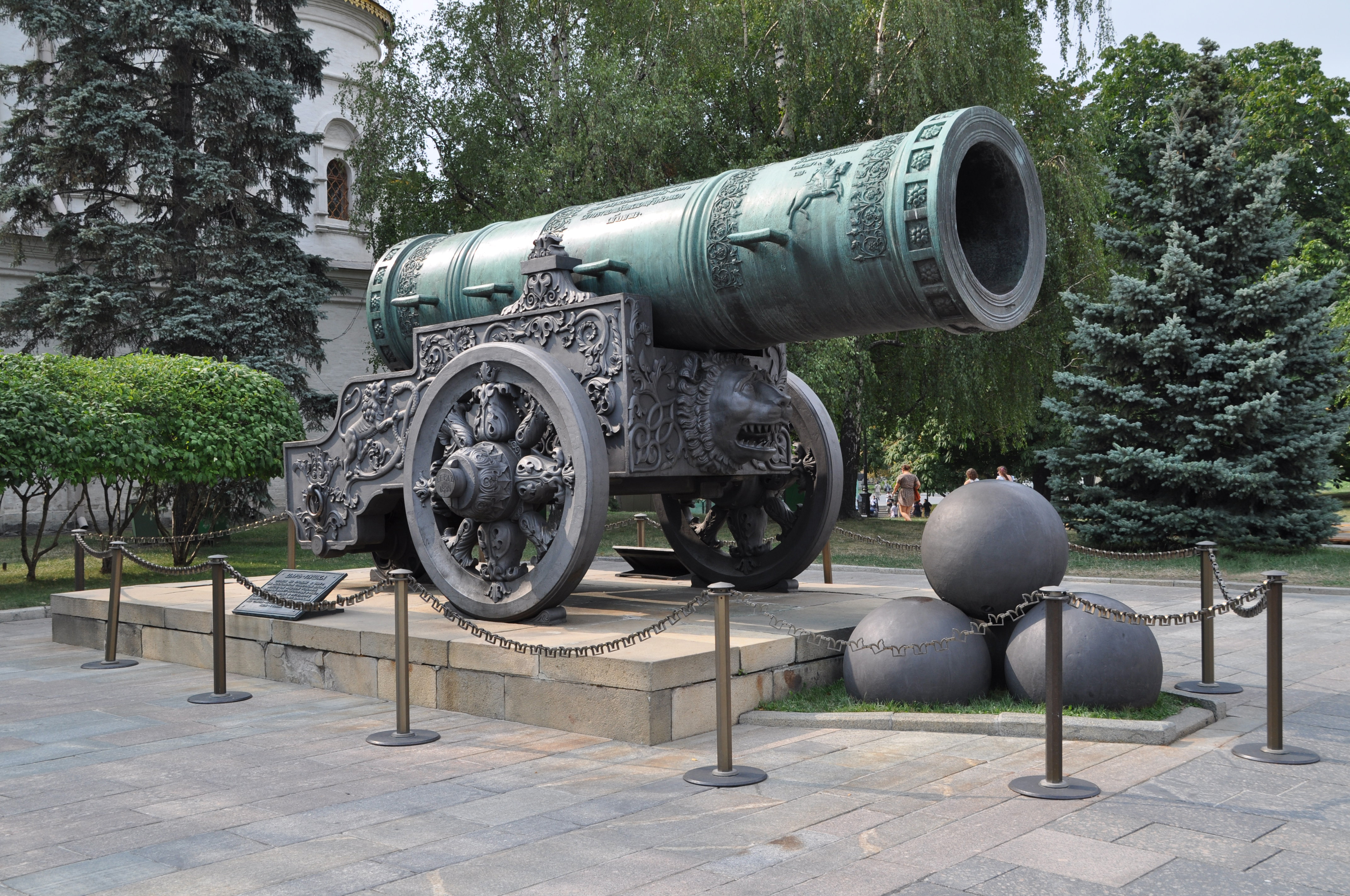 Czar cannon in the Kremlin from 1586.